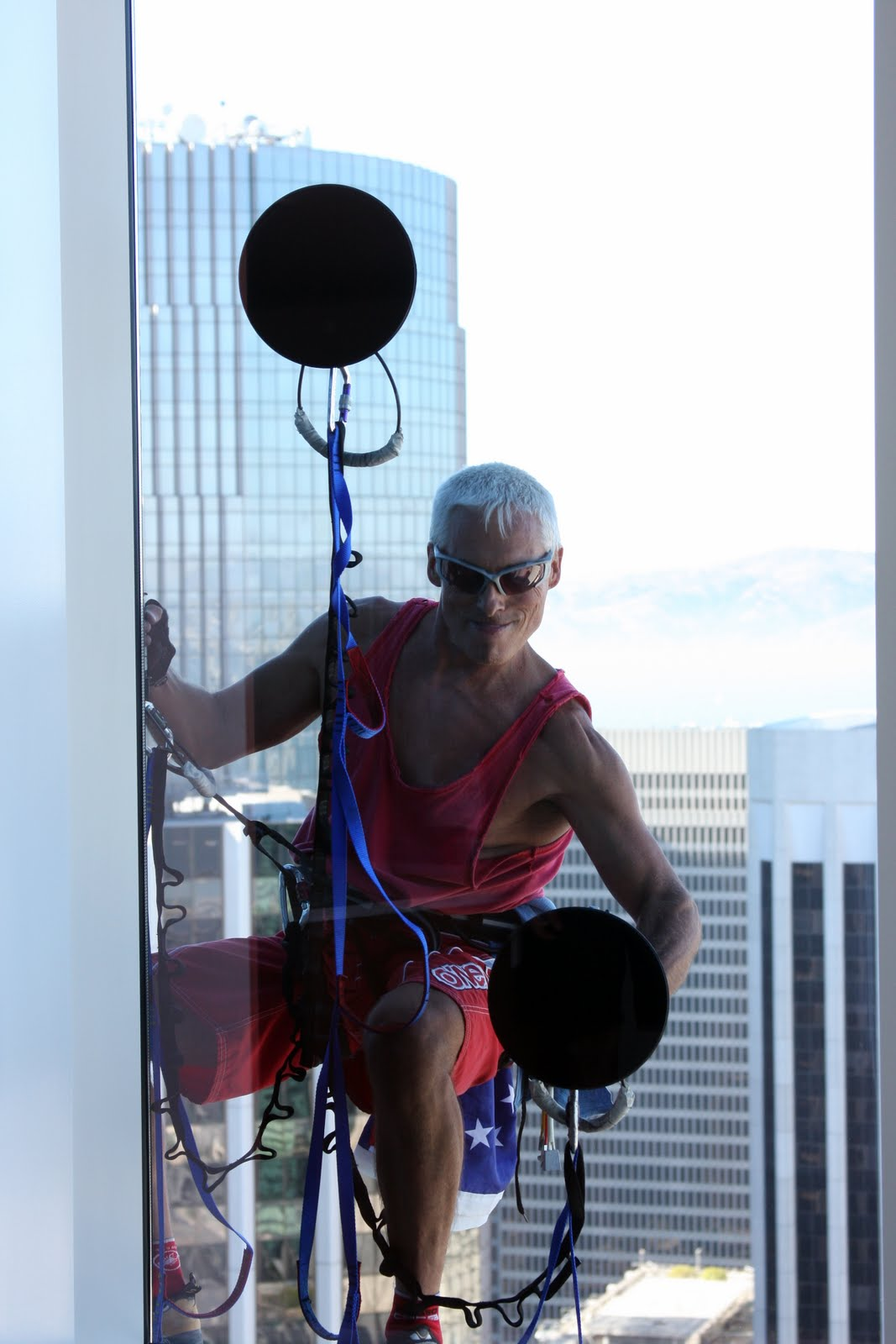 Photo of Dan Goodwin climbing the Millennium Tower in San Francisco, taken from the 50th floor condo.